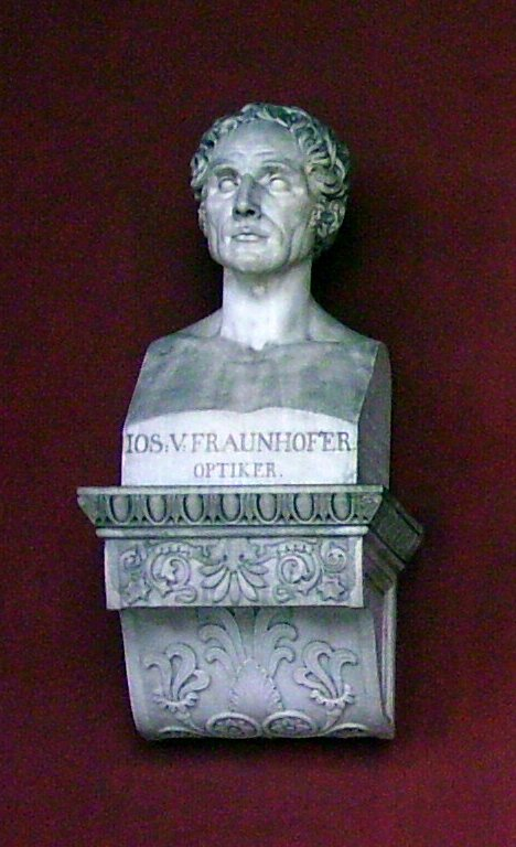 Bust of Ios. v. Fraunhofer at Ruhmeshalle ("Hall of fame"), München, Germany Bildhauer: Schönlaub, Fidelis. Picture taken by myself: Dominik Hundhammer, München, 27 March 2006.